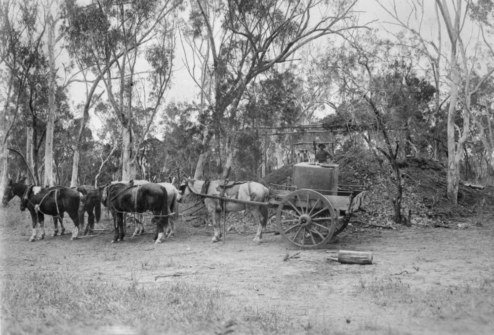 Dray and horses at Bowen Consolidated Coal Mines, Collinsville, ca. 1918. The horse team and cart owned by Paynes is pictured outside the Number One Shaft, Bowen Seam. (Description supplied with photograph.).